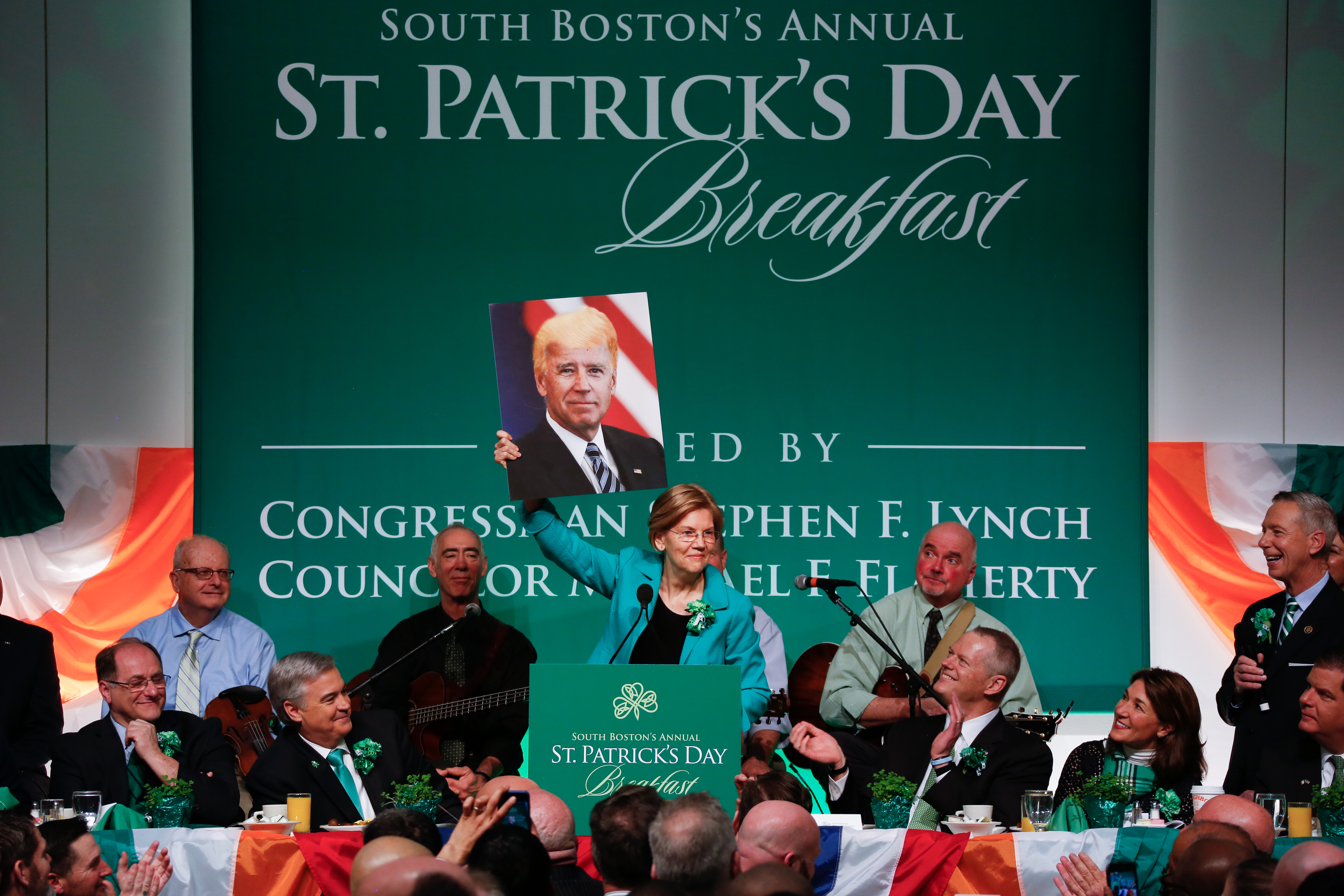 South Boston, MA